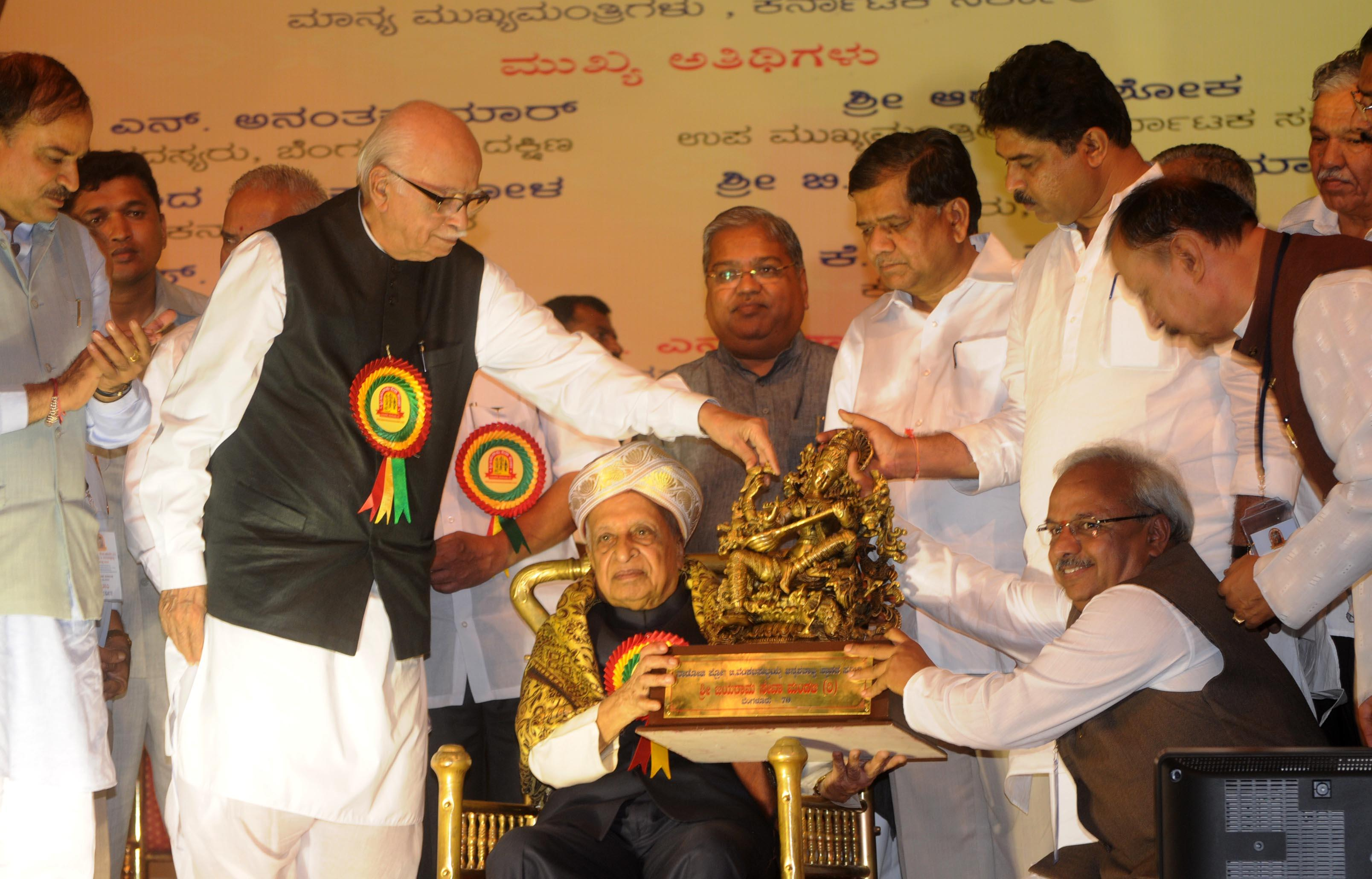 Prof G. Venkatasubbaiah being felicitation by Lal Krishna Advani at Bangalore in 2012